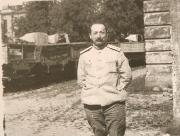 Fedor Dan (1871-1947)